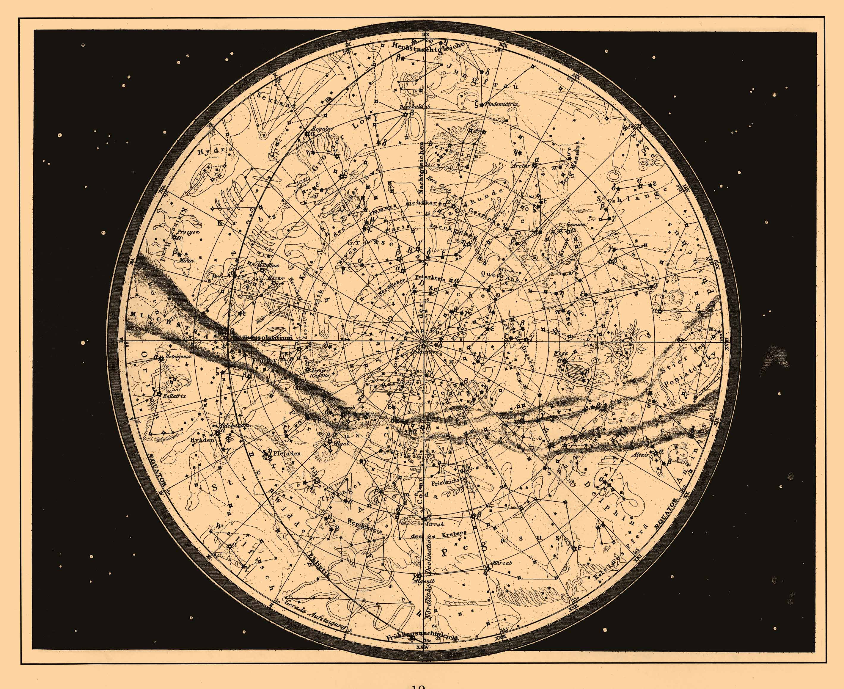 Illustration from Brockhaus and Efron Encyclopedic Dictionary (1890—1907)